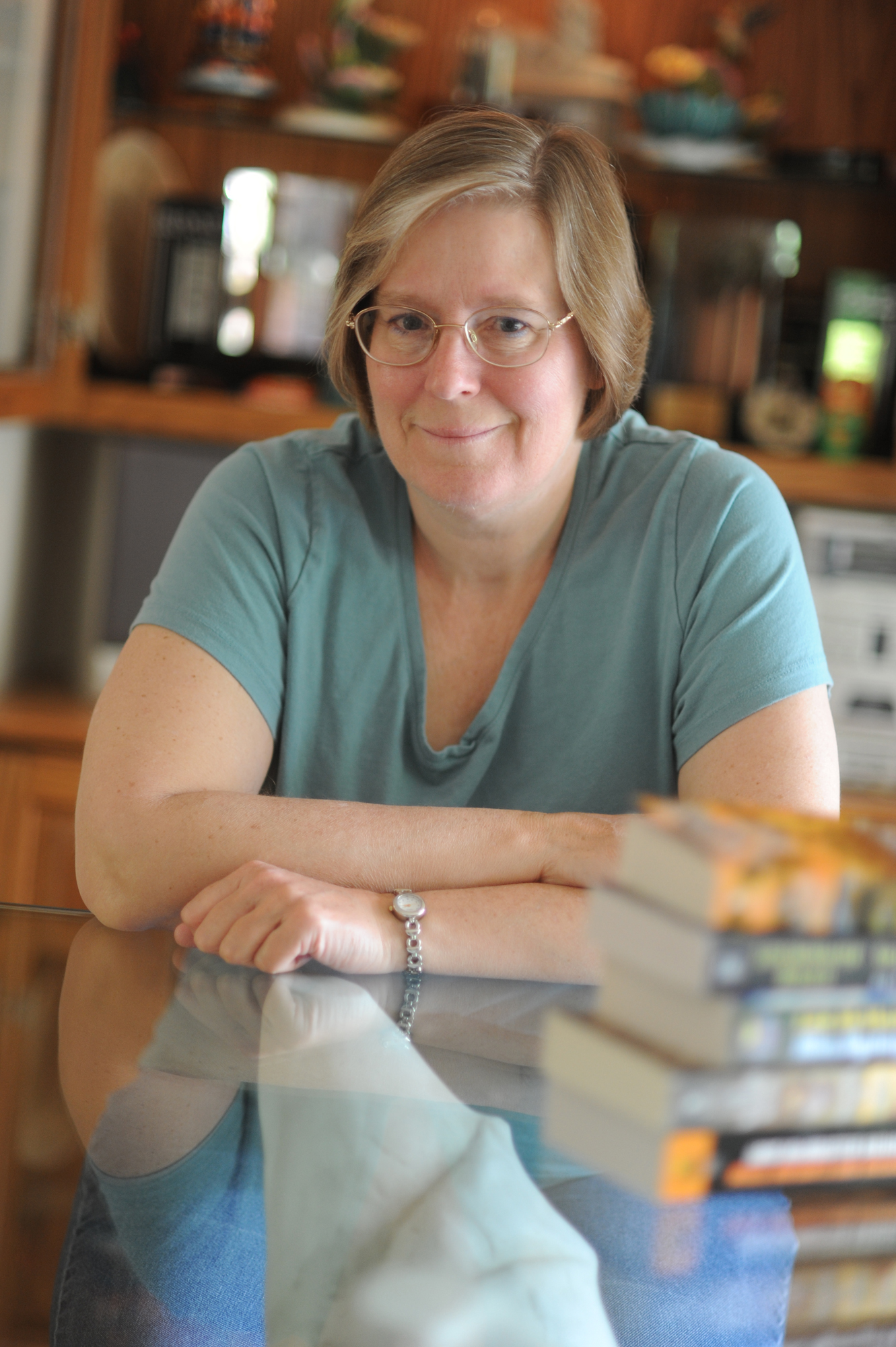 Science fiction novelist Lois McMaster Bujold. Taken at her home.